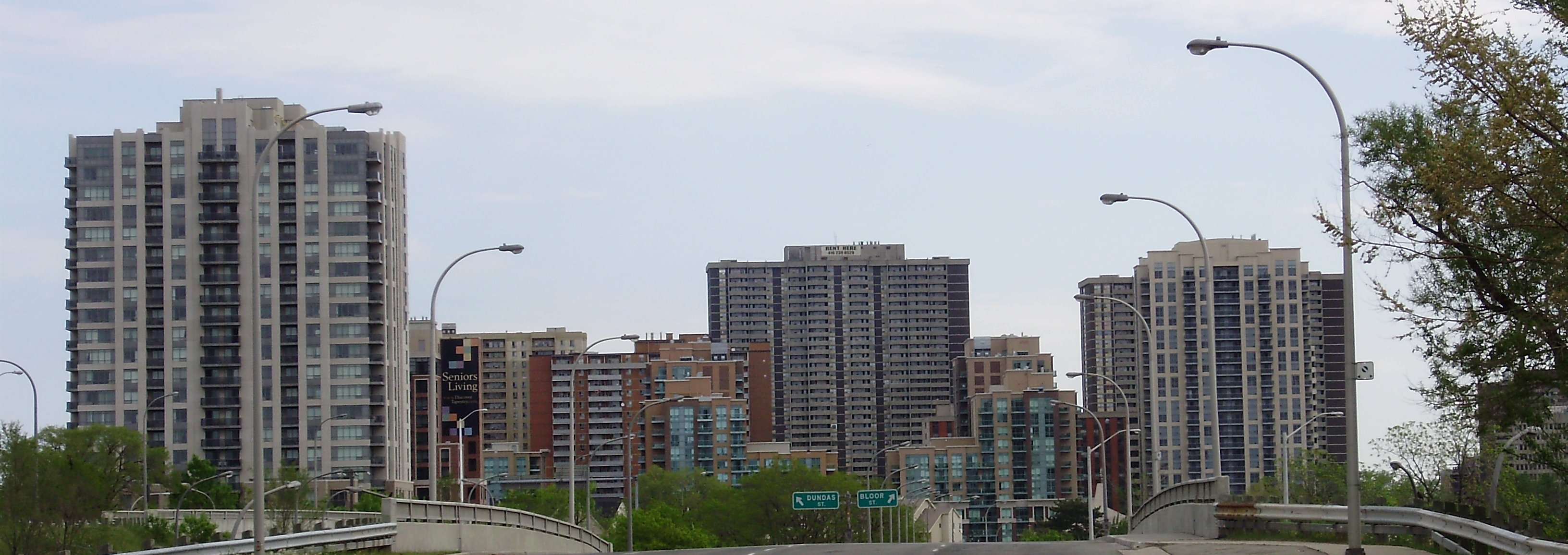 The skyline of Etobicoke, centered around the intersection of Bloor Street West and Islington Avenue, and photographed from Dundas Street West in Etobicoke, Ontario, Canada.